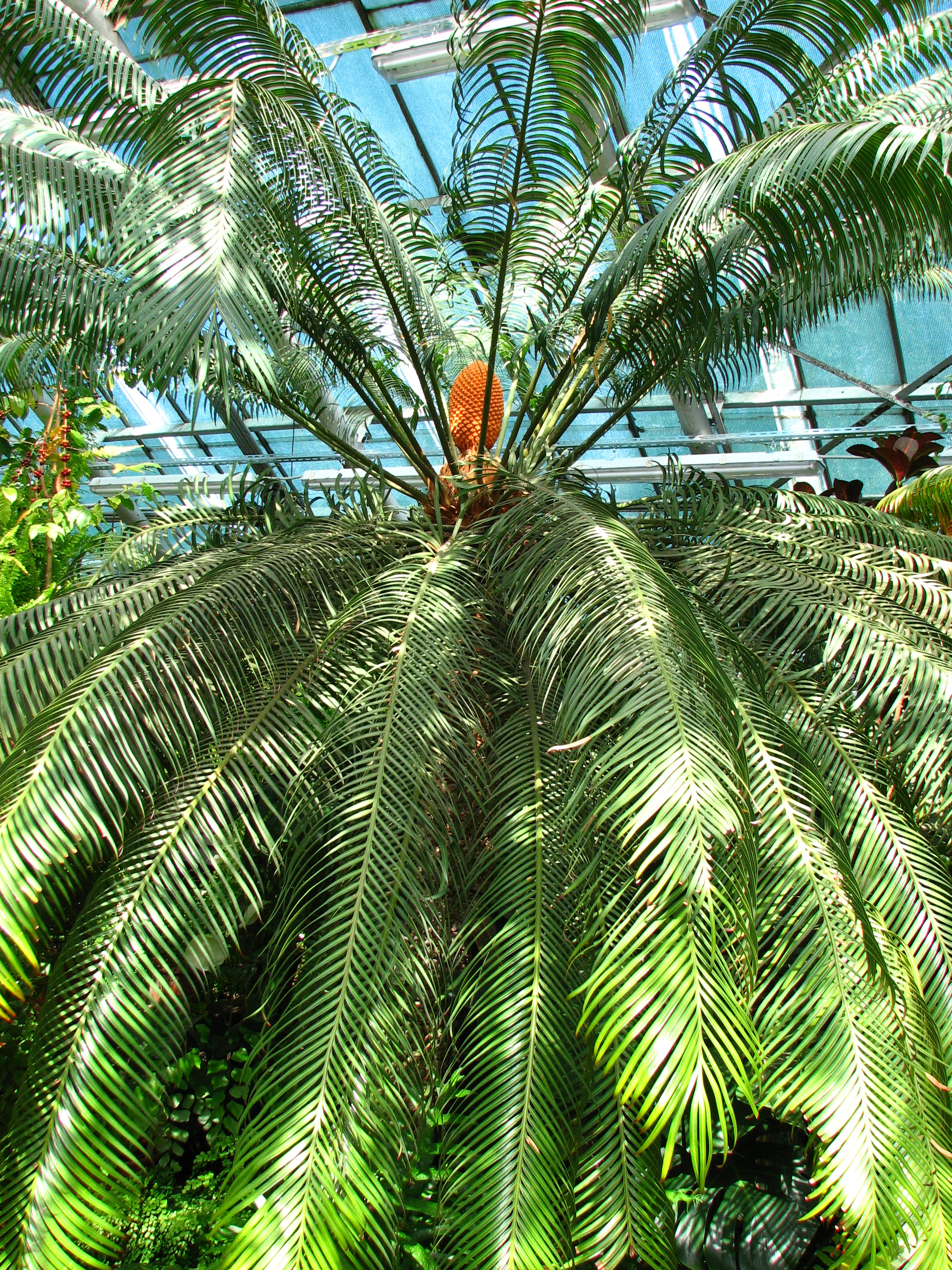 Greenhouses of the Botanical garden (Saint Petersburg).